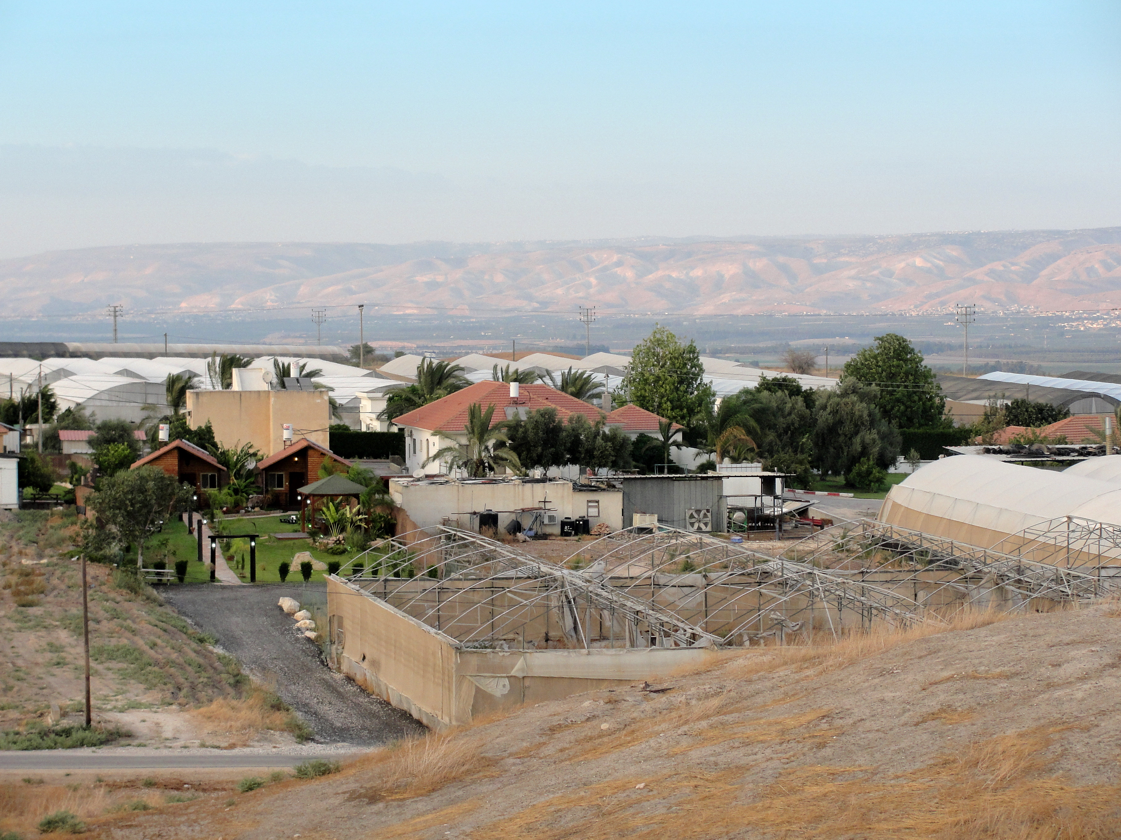 Mechinat HaEmek (pre-army preparatory program), Tel Te'omim, Israel